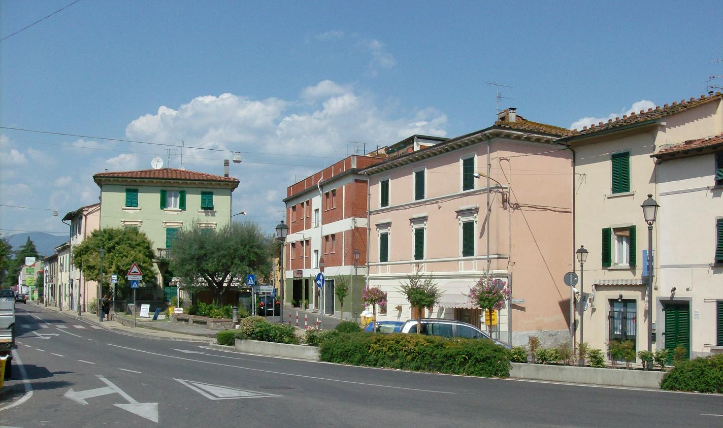 Town centre of Cantagrillo, one of the communities (frazioni) of the municipality Serravalle Pistoiese, south of Pistoia, Tuscany, Italy